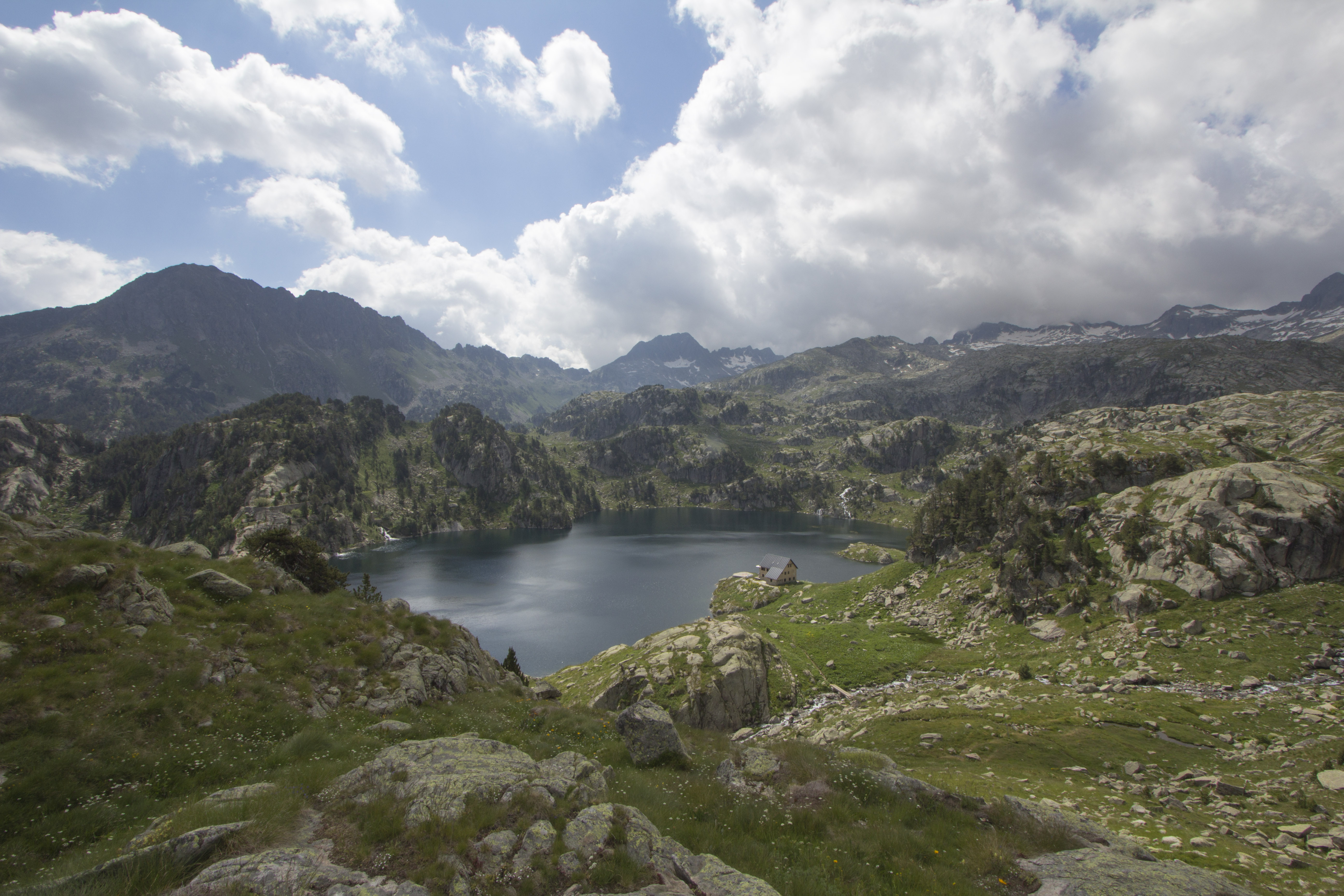 Major de Colomèrs lake, Colomèrs cirque, Catalan Pyrenees